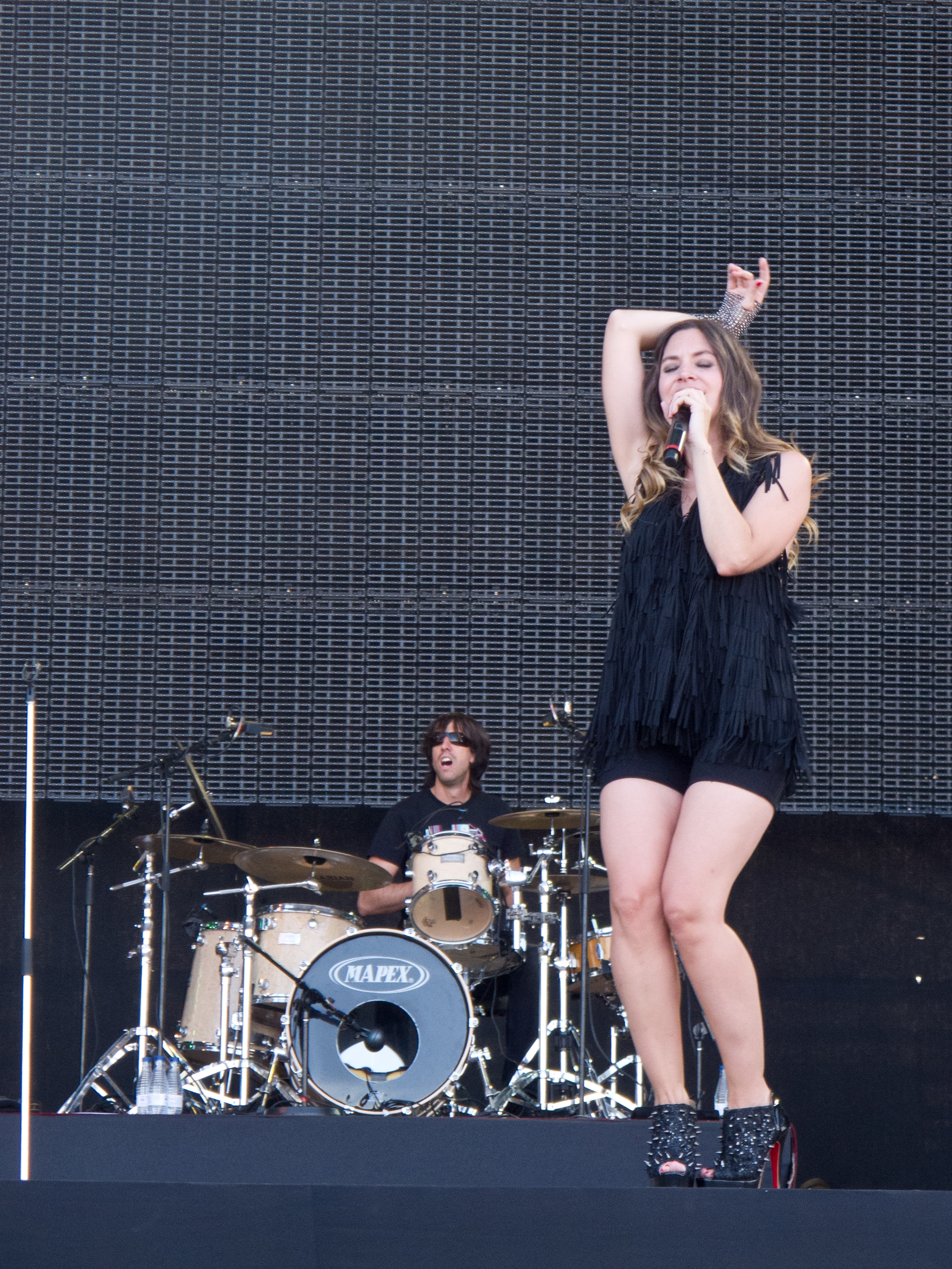 La oreja de Van Gogh in Rock in Rio Madrid 2012.